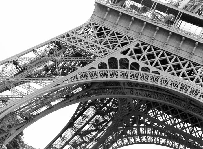 Closeup of the Eiffel Tower's structure. Image taken and placed in the public domain by Sami Huhtala